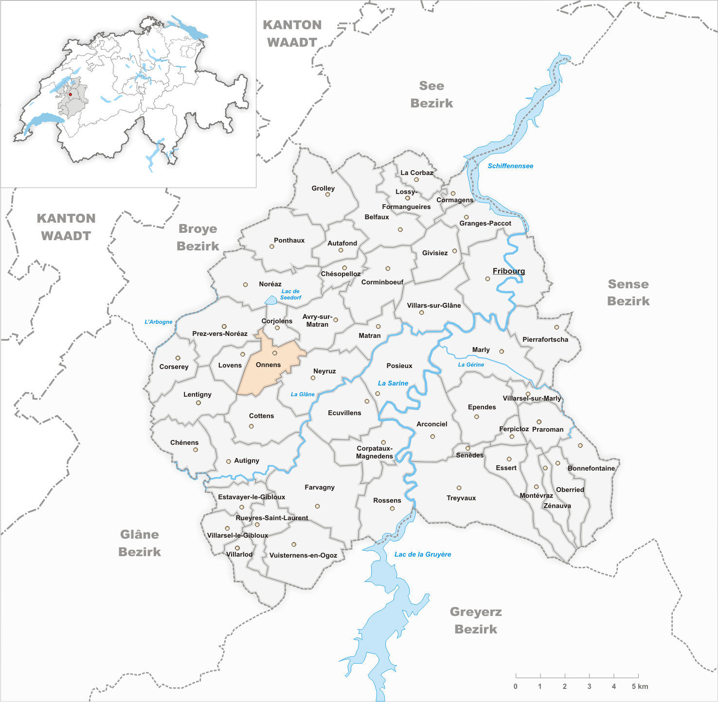 Municipality Onnens Artist: Tschubby